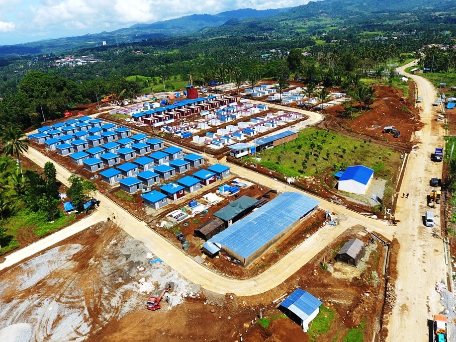 Transitory shelters built in Barangay Sagonsogan, Marawi by the government's Task Force Bangon Marawi initiative for residents who lost their homes following the Battle of Marawi